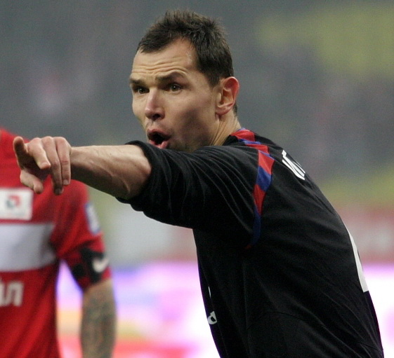 Sergei Ignashevich